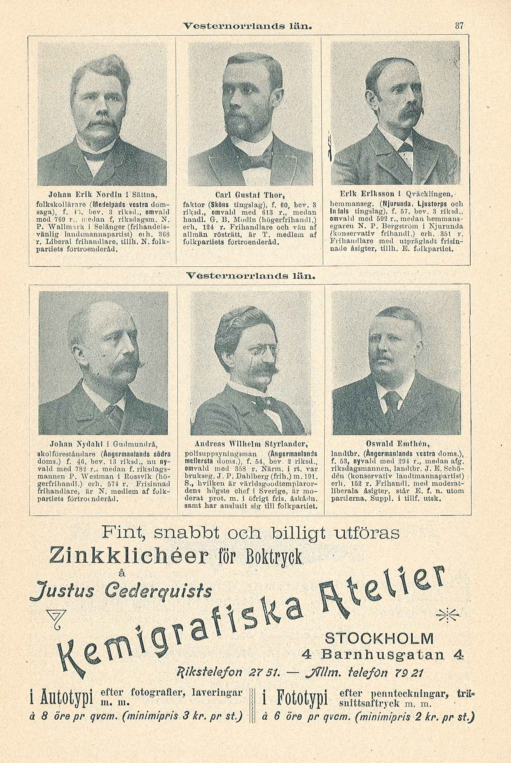 Page 37 of an album featuring portraits of all the members of the second chamber of the Swedish parliament (Sveriges riksdag) elected in 1897. This page featuring parts of the members representing the county of Västernorrland.